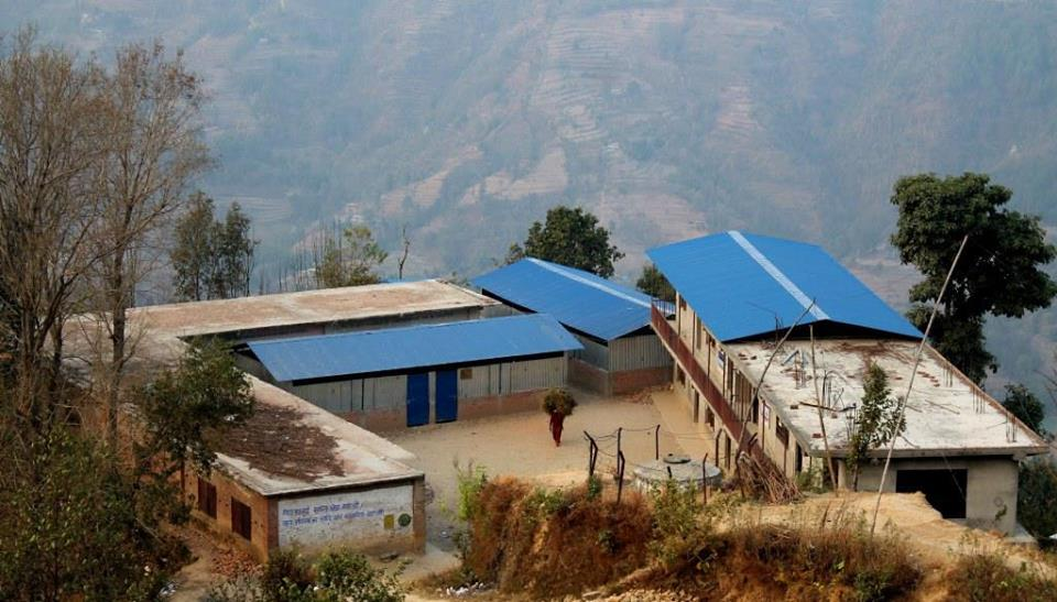 School